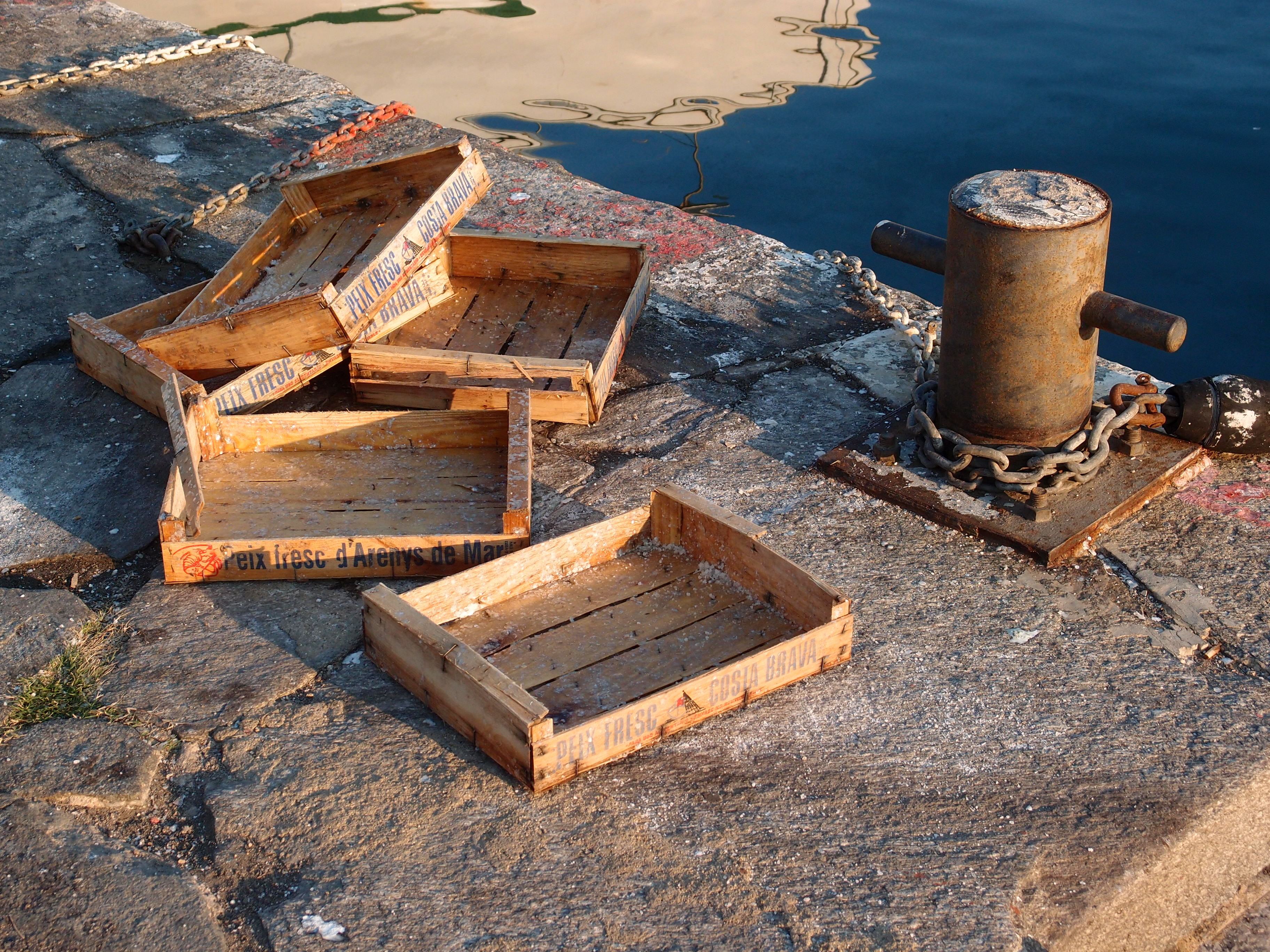 Left fish boxes in the habour of Roses, Girona - Spain